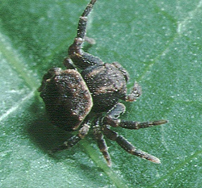 male Boliscus tuberculatus from Okinawa.